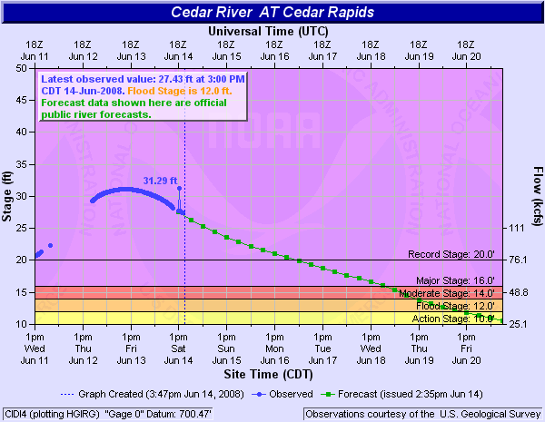 Record levels on the Cedar River in Cedar Rapids, Iowa, USA. This graph from the National Oceanic and Atmospheric Administration shows the river at 27.43 feet, 7.43 above record levels and more than 15 feet above flood stage. Predictions on this graph show the river cresting at over 31 feet before finally subsiding. June 14, 2008; 3:00 pm local time. (CDT)